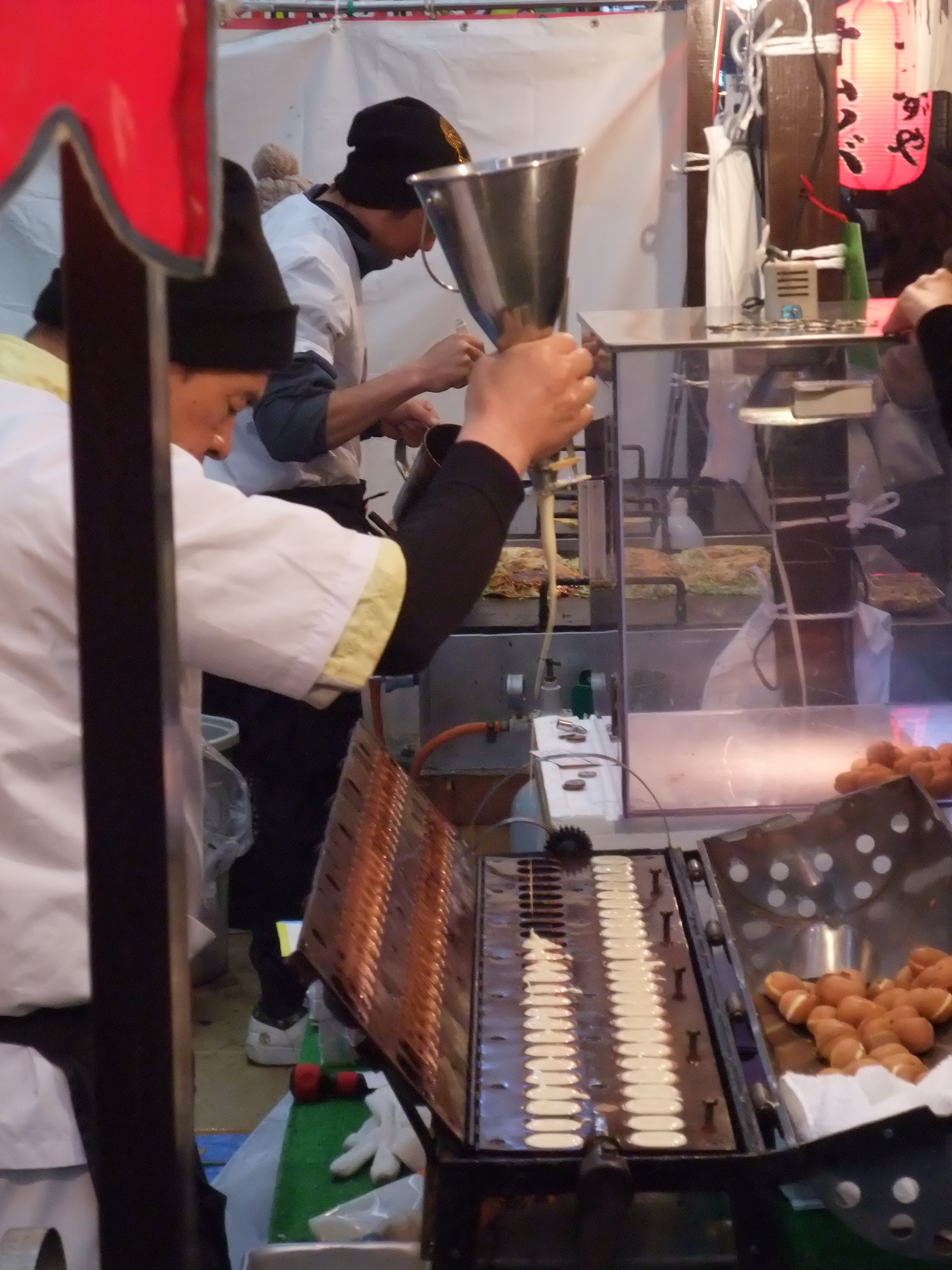 The making of mini-kasutera